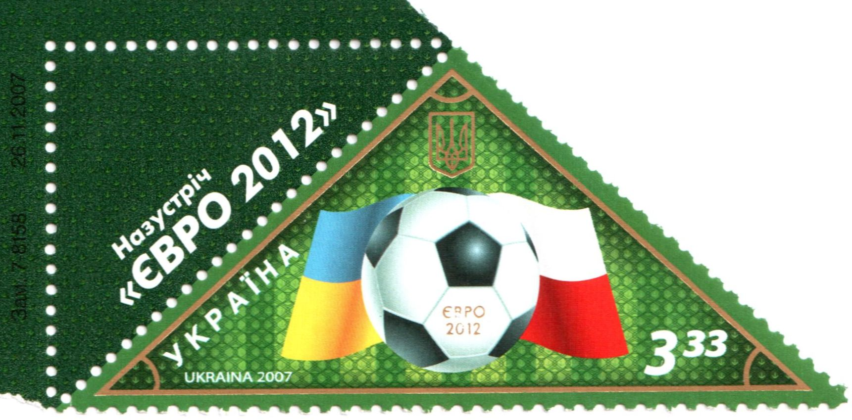 Stamp of Ukraine EURO Football 2012